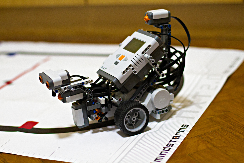 Follows the black line on the floor. LEGO Mindstorms NXT 2.0